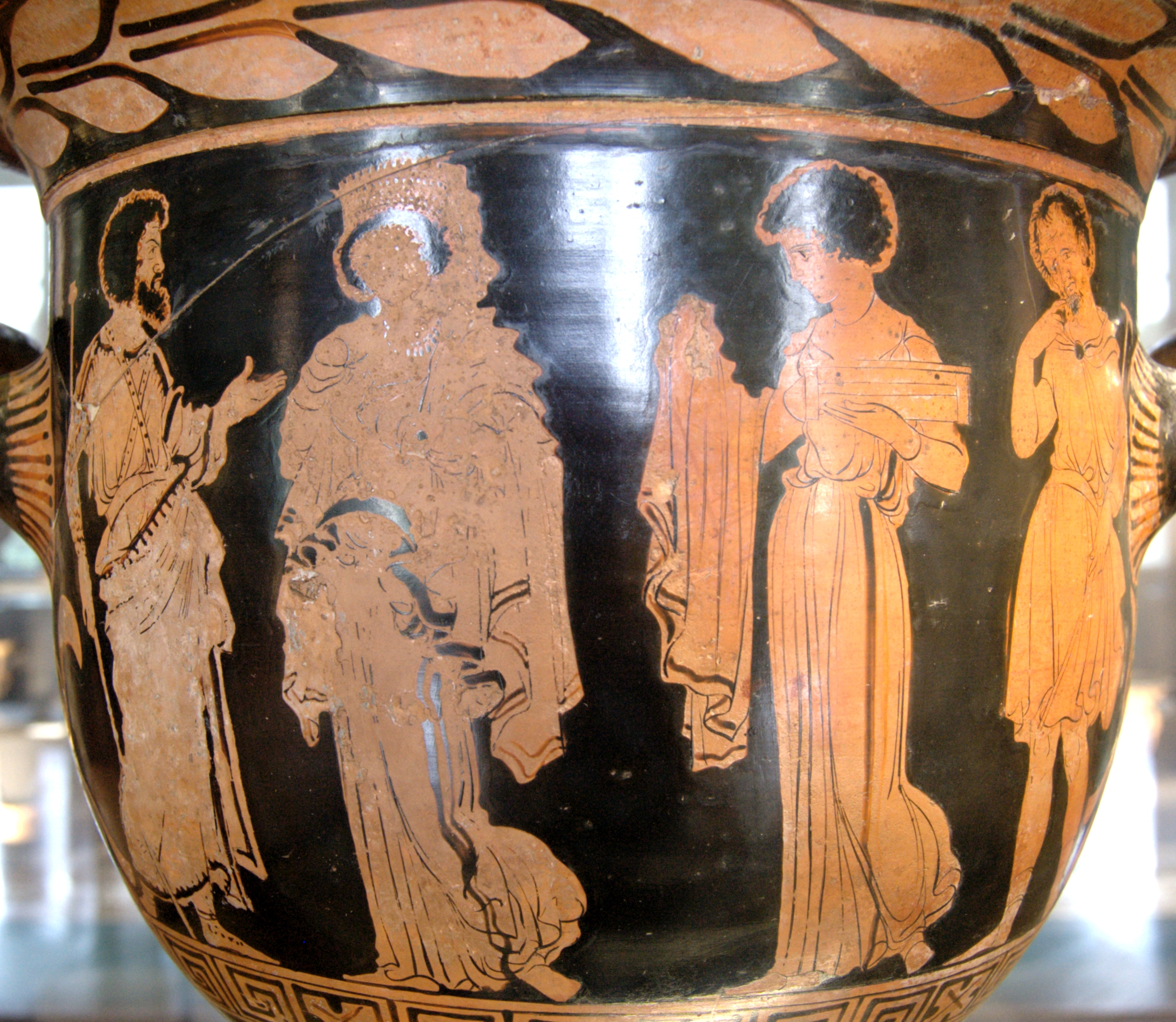 Presents from Medea to Creusa. Side A from a Lucanian red-figure bell-krater, ca. 390 BC. From Apulia.